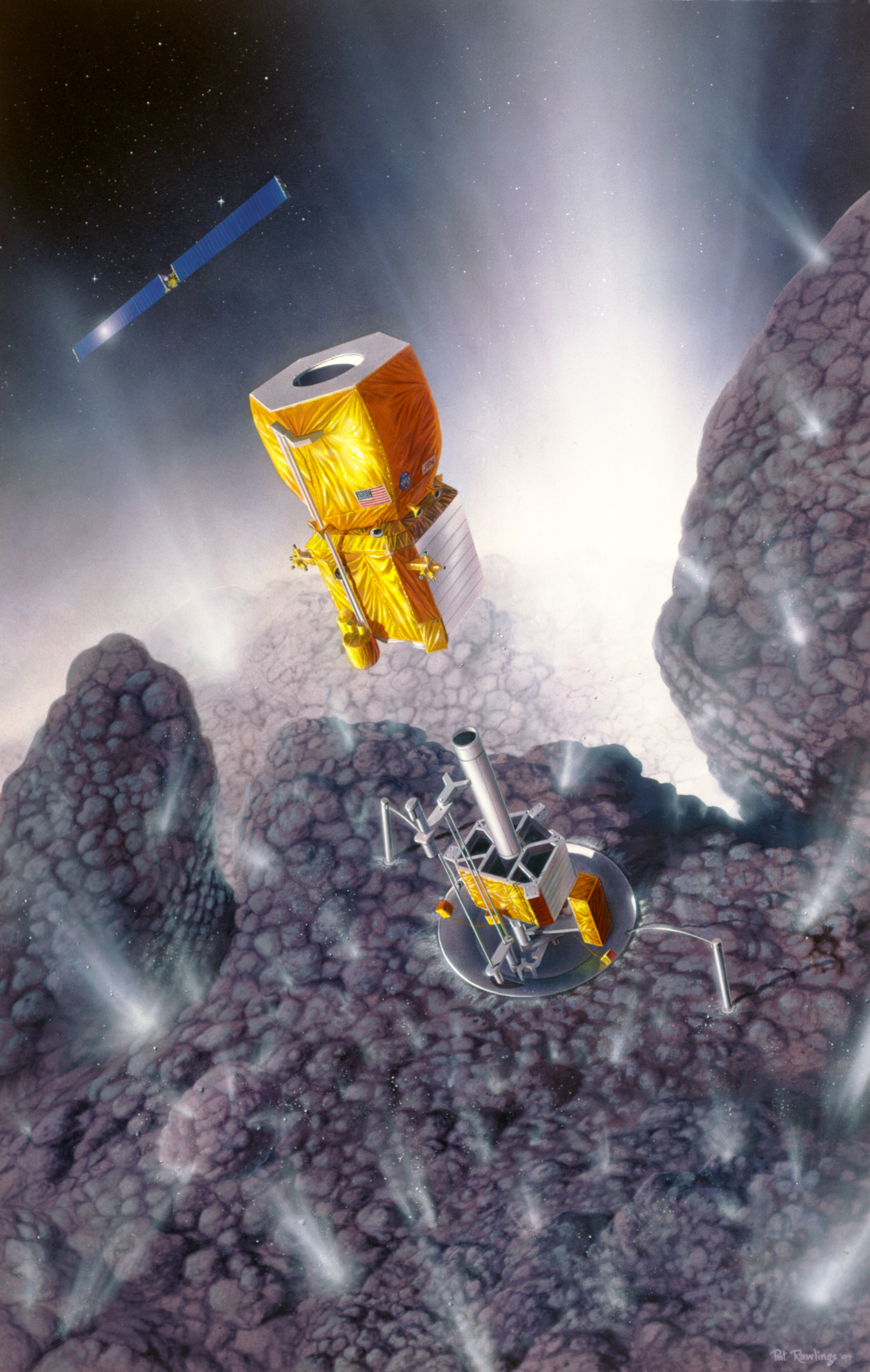 Champollion (Deep Space 4 / Space Technology 4) Comet lander S99-04190 (1997) --- A massive, dirty snowball the size of a mountain plows through the Solar System, venting water vapor as it begins its inbound loop around the Sun. The proposed Champollion spacecraft lander anchors to the irregular surface and collects both surface and core samples. After transferring the samples and collecting other data, the ascent stage departs to rendezvous with the orbiting Earth return stage. This image produced for NASA by Pat Rawlings, (SAIC). Technical concepts for NASA's Exploration Office, Johnson Space Center (JSC). Concept with seperate orbiter and lander modules